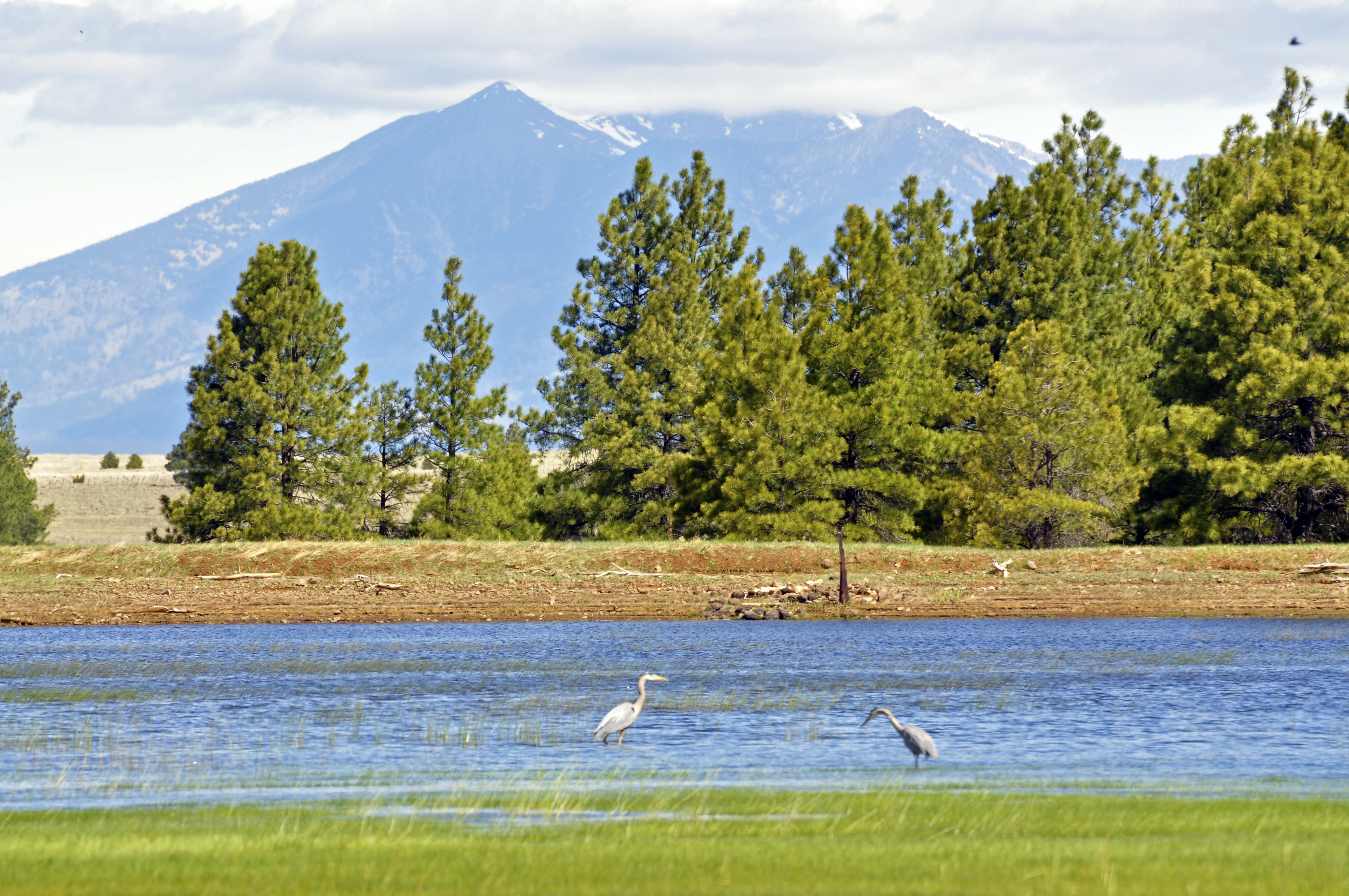 Great blue heron (Ardea herodias) gather at Tonys Tanks, off of Forest Road 125. Photo taken on 5-17-11 by Brady Smith. Credit: U.S. Forest Service, Coconino National Forest.